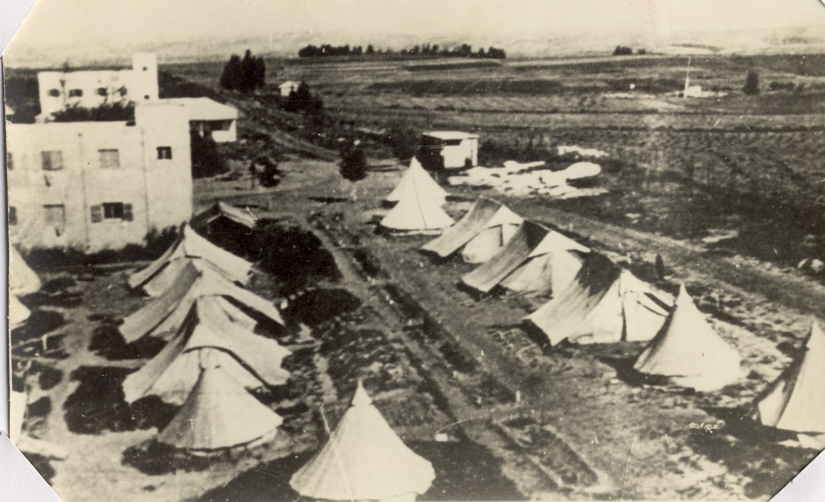 Kibbutz Ramat Hkovesh tent camp, Settlements in Israel